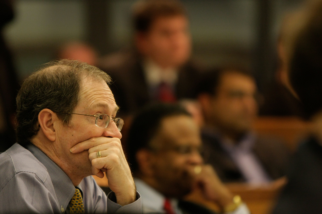 William Luneburg participating in a February 12, 2009 roundtable on "Managing the Bailout," hosted by the Rappaport Center for Law and Public Service.